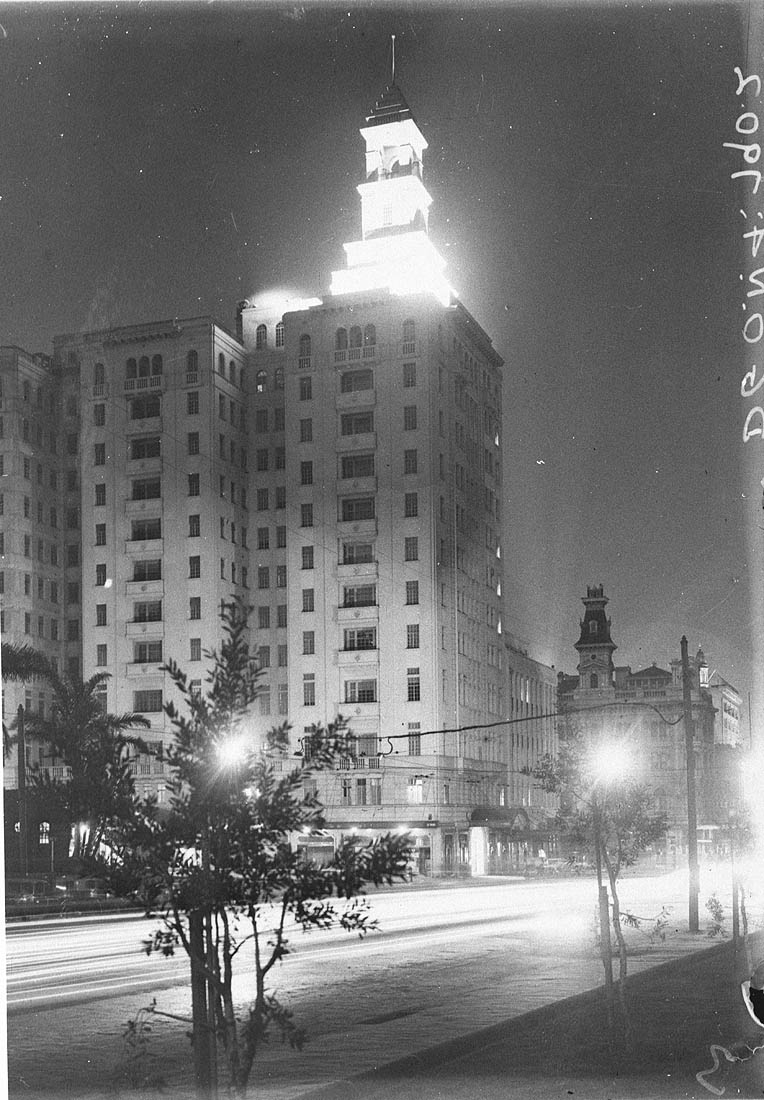 Format: Photograph Find more detailed information about this photograph: .au/item/itemDetailPaged.aspx?itemID=8815# From the collection of the State Library of New South Wales